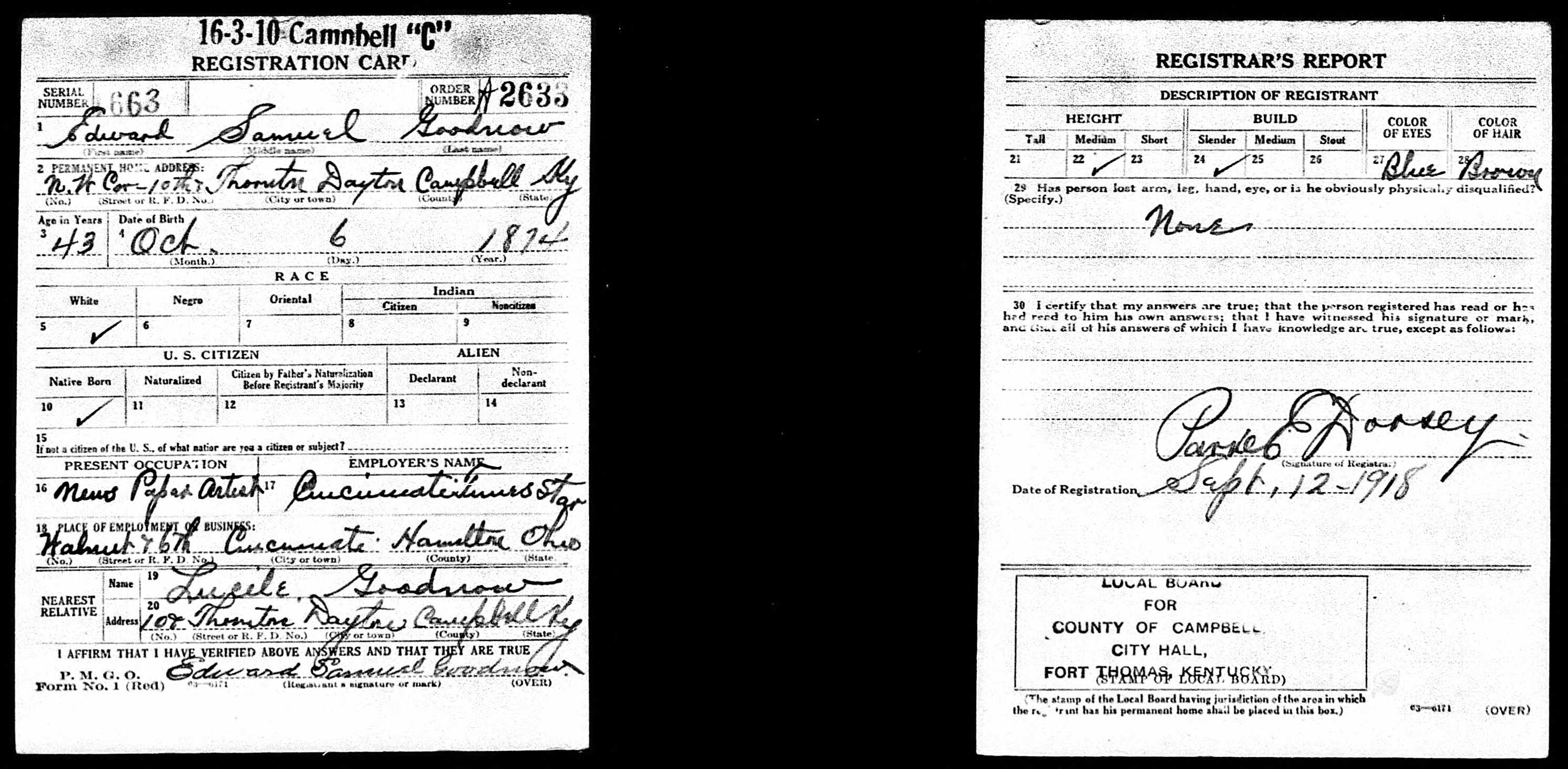 Edward Samuel Goodnow (1874-1949) on September 12, 1918 in the WWI draft registration